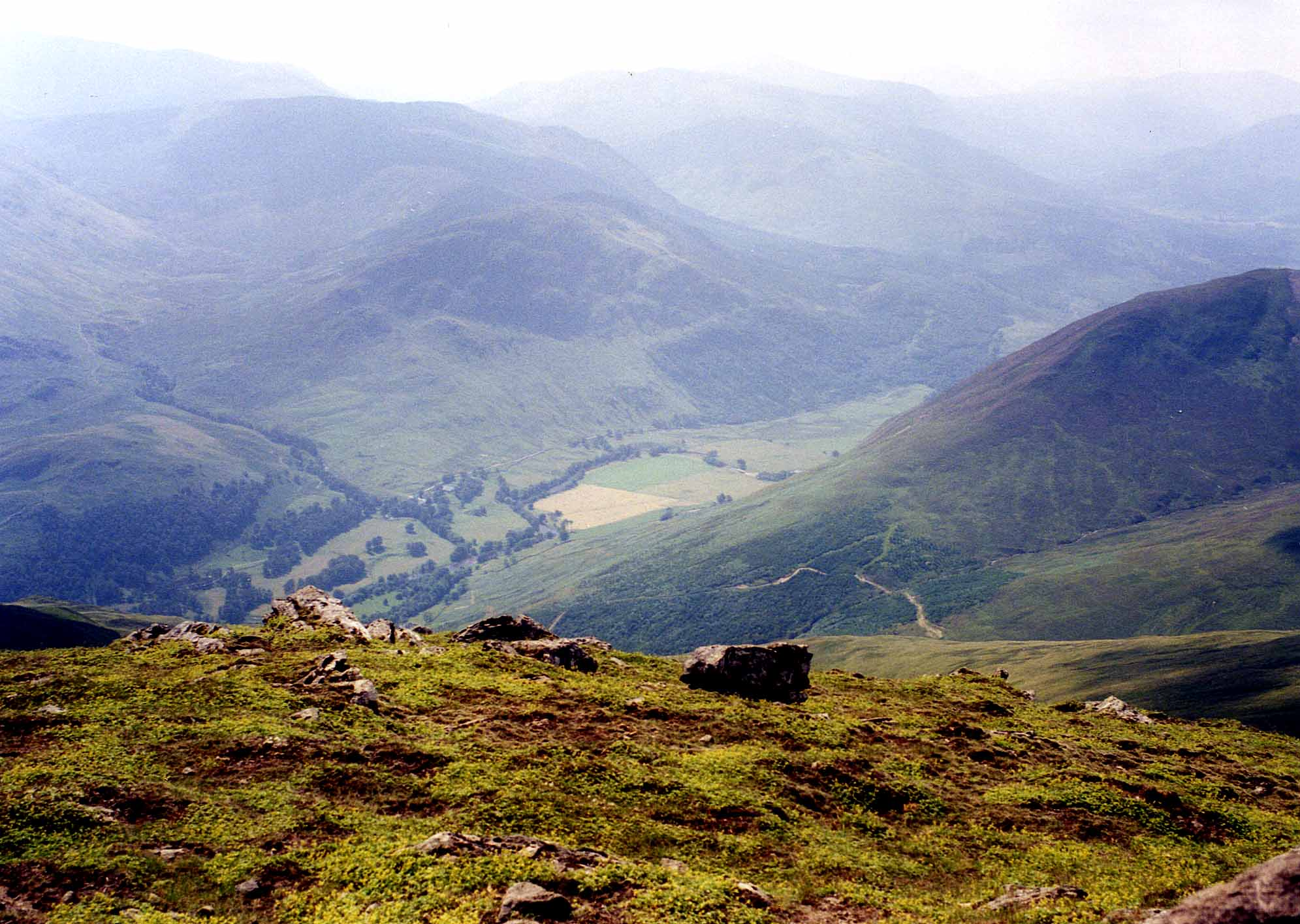 Personal picture taken by Mick Knapton